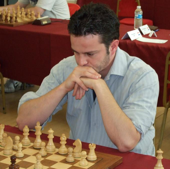 GM Etienne Bacrot - Round 6 of 4th EU Individual Open Ch., Liverpool World Museum, William Brown Street